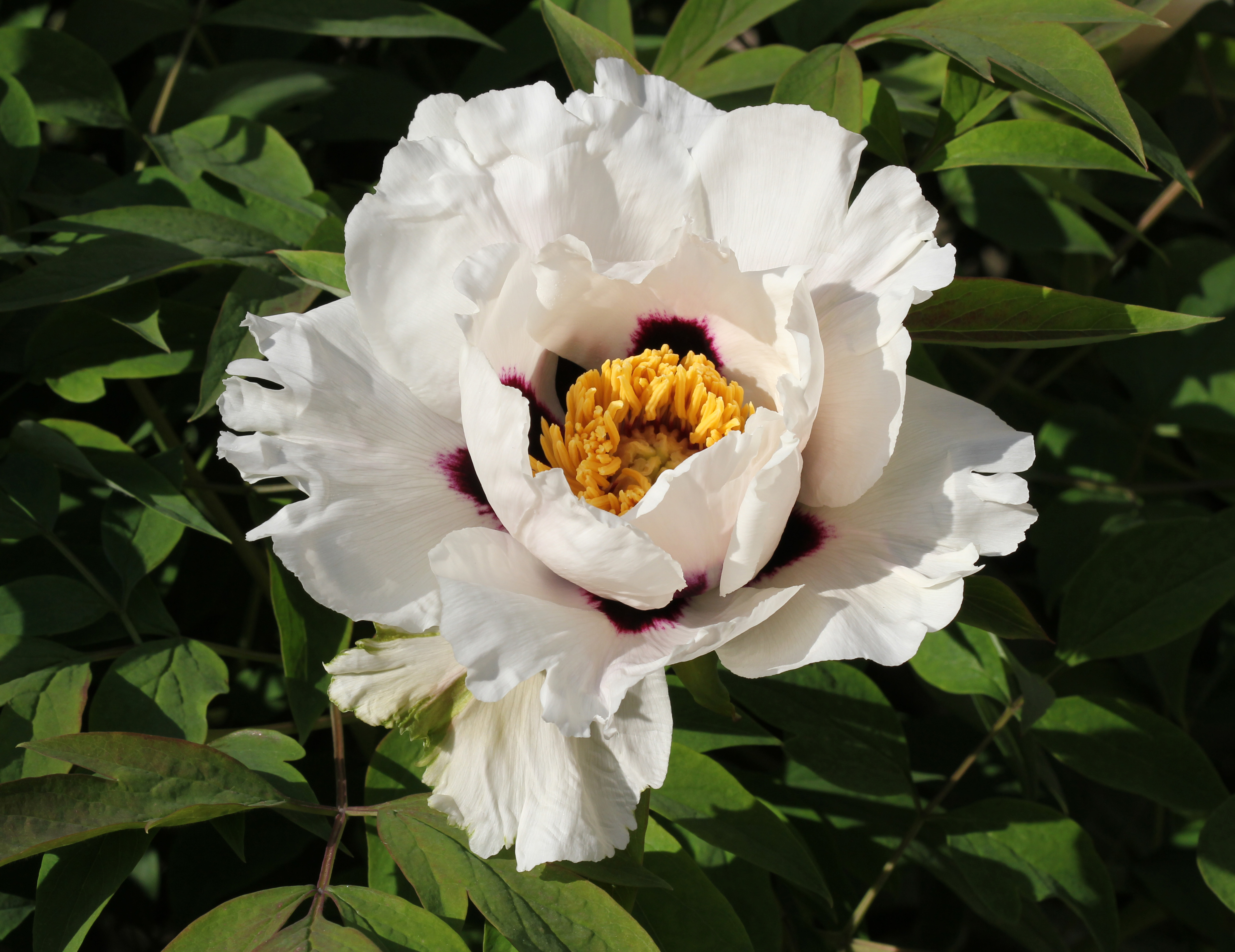 Rock's tree peony (Paeonia rockii). The plant is grown up in a garden. Ukraine.